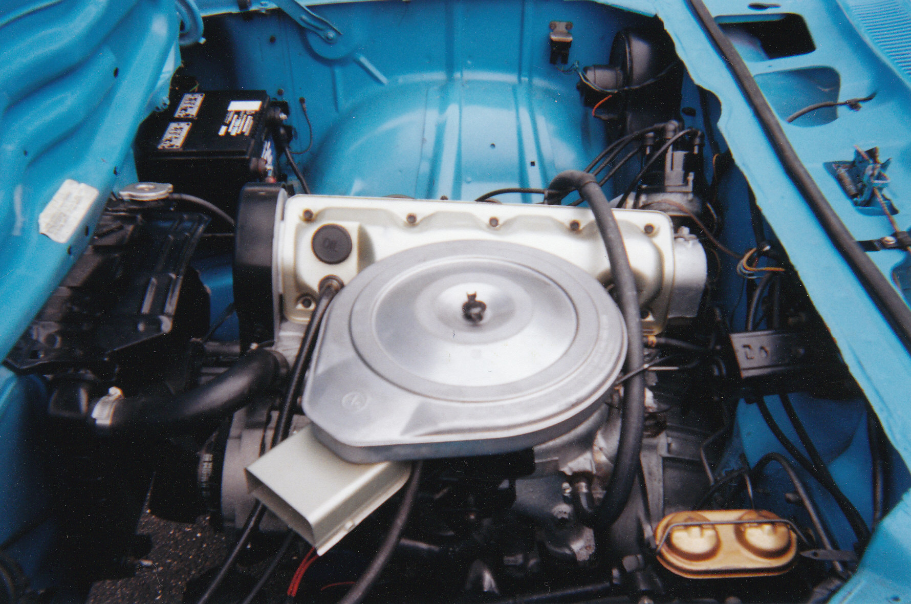 Vega 140 CID Engine (my 71 Vega)